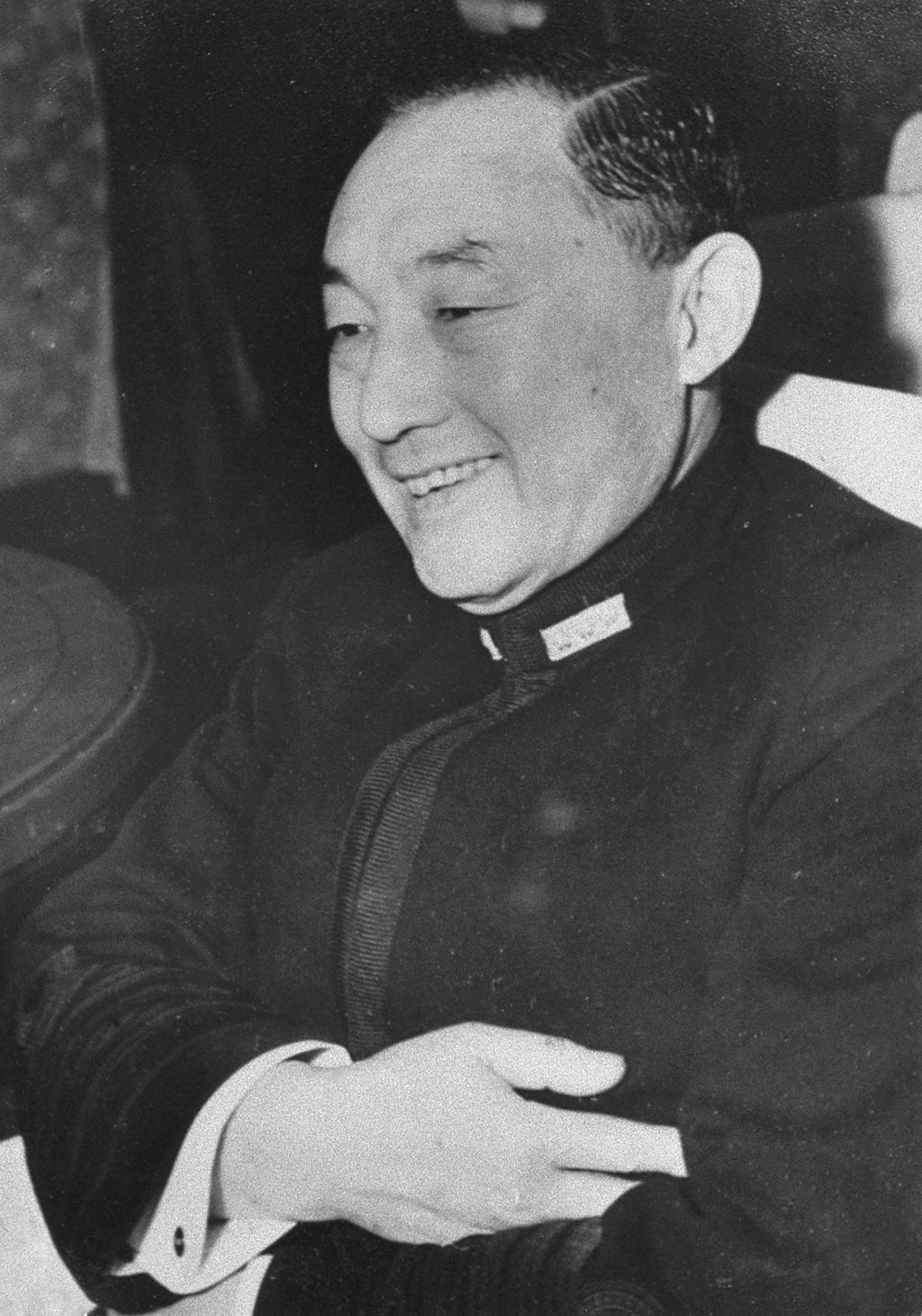 Portrait of Yonai Mitsumasa (米内光政, 1880 – 1948)